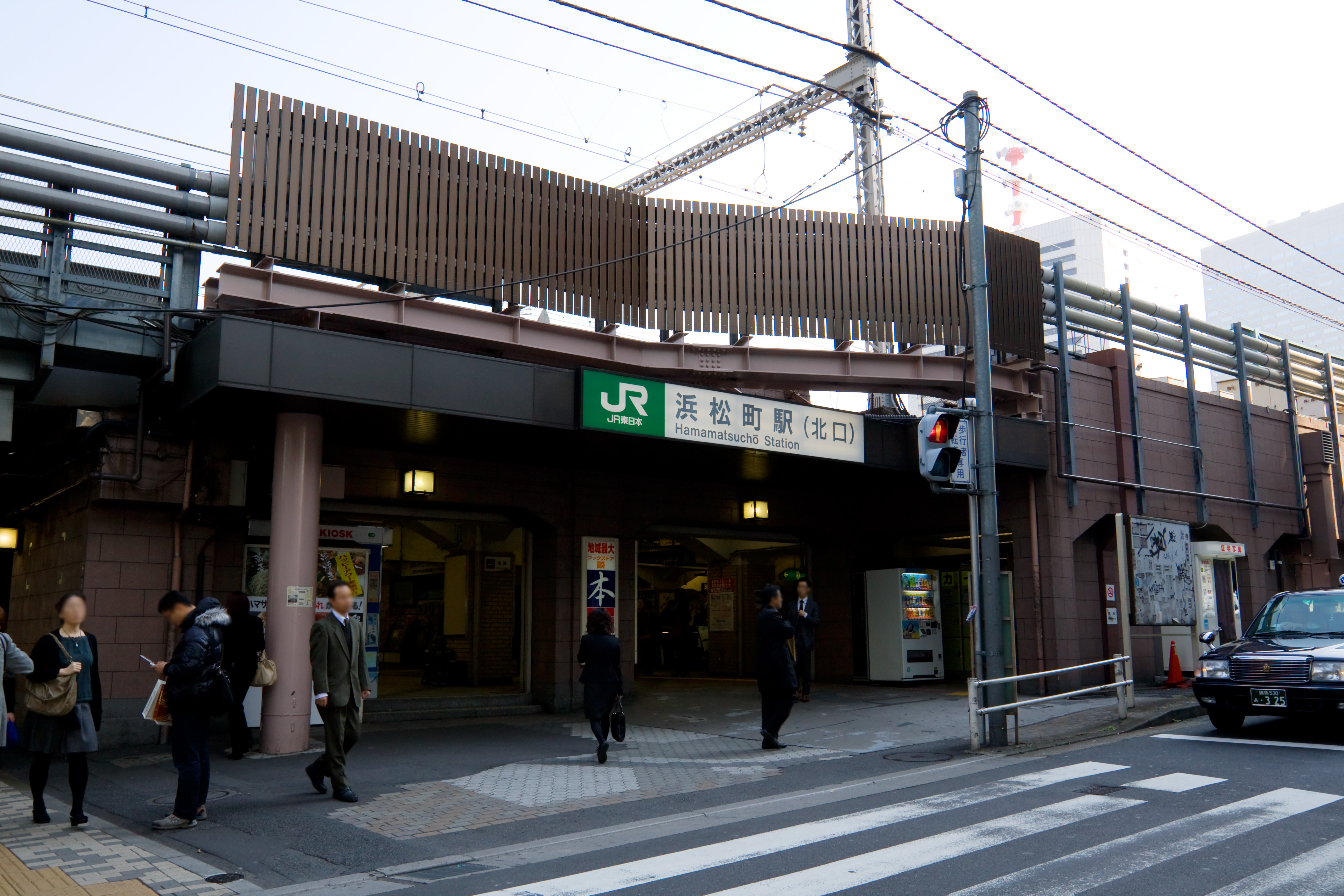 JR Hamamatsucho Station North Exit